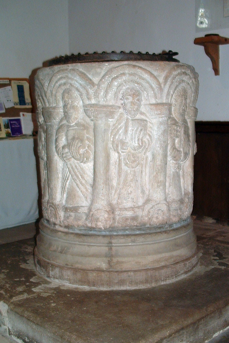 12th-century font in St George's church, Orleton, Herefordshire, characteristic of the Herefordshire school of Norman sculpture